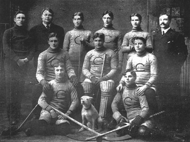 American ice hockey team Calumet-Laurium Miners at the Palestra ice rink in Laurium, Michigan in the 1904–1905 IPHL season. Front row, left to right: Fred Strike, Ken Mallen. Middle row, left to right: Dr. Bob Scott, Billy Nicholson, Jimmy Gardner. Top row, left to right: Joe Ziehr, Charles Thompson, Aeneas "Reddy" McMillan, Hod Stuart, Clarence "Lal" Earls, Johnson Vivian.